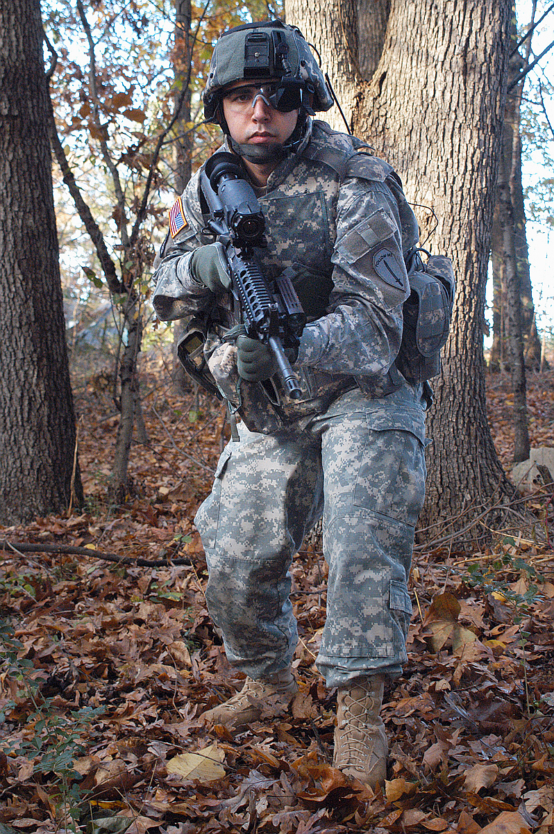 An American soldier showcases Land Warrior in 2006.